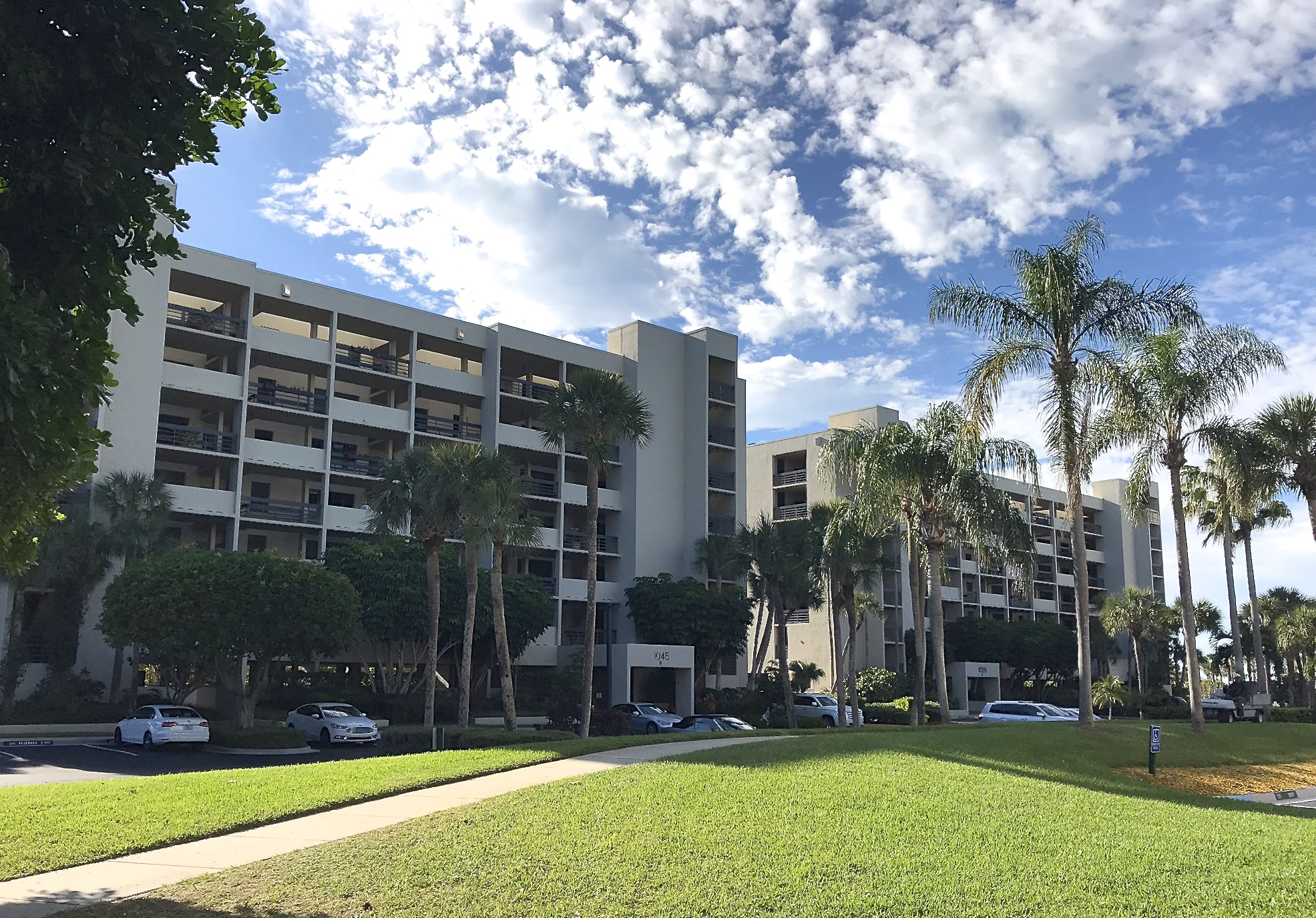 Beachplace 2 (Tim Seibert, Architect, FAIA)